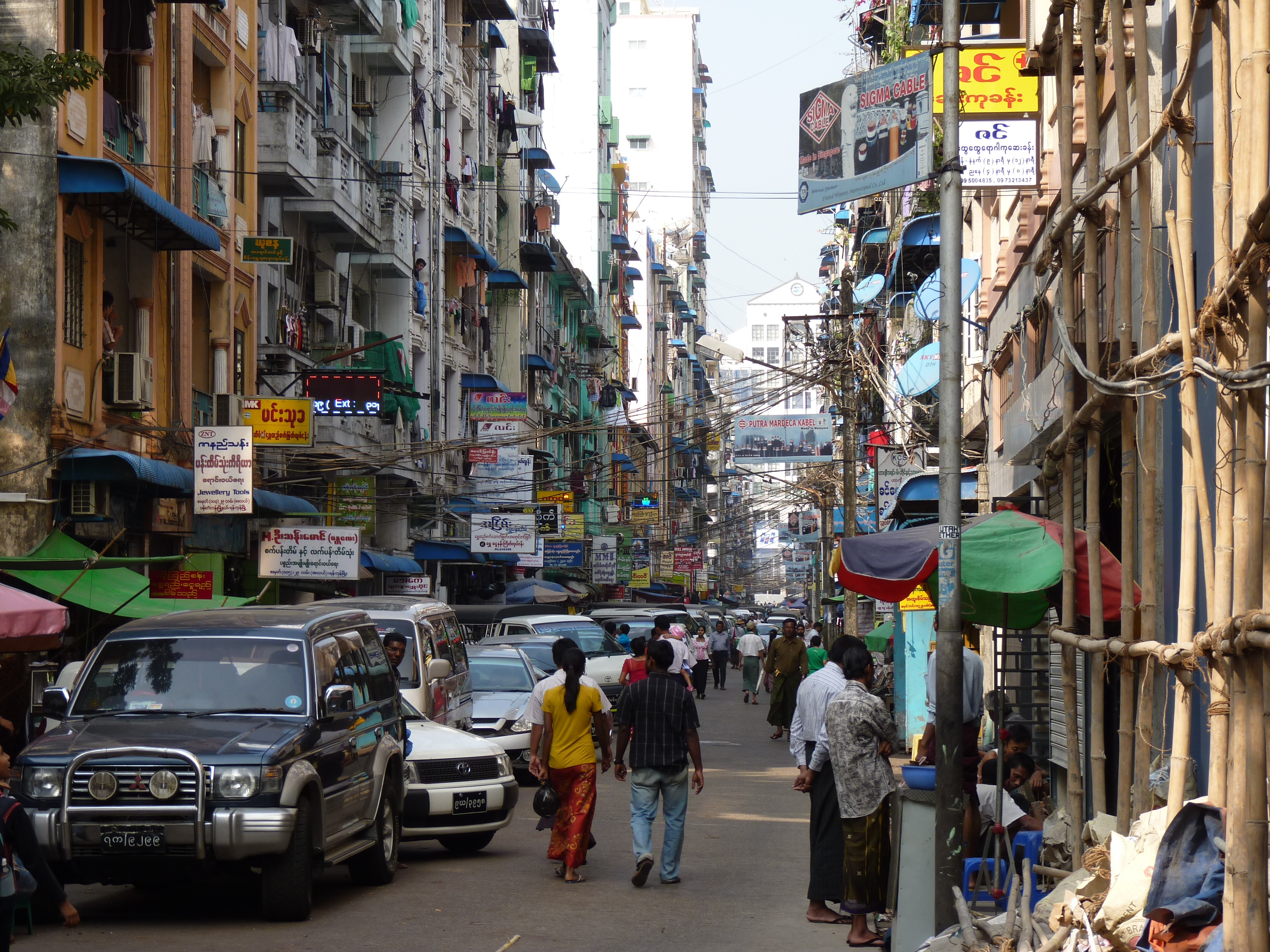 Street in Yangon (Rangoon), Myanmar (Burma)